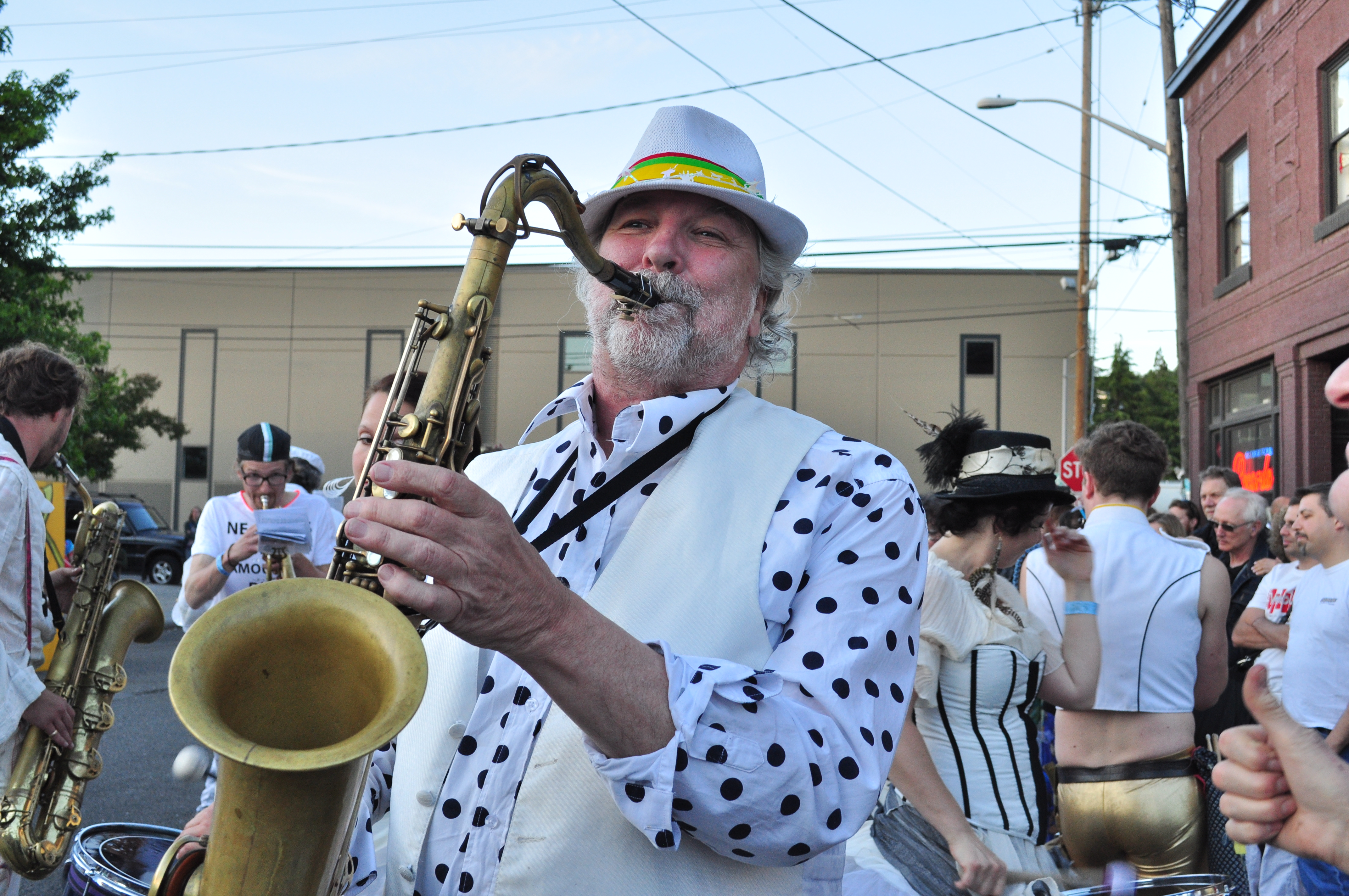 The Carnival Band from Vancouver, British Columbia, performing at Honk Fest West, Georgetown, Seattle, Washington, June 20, 2014.